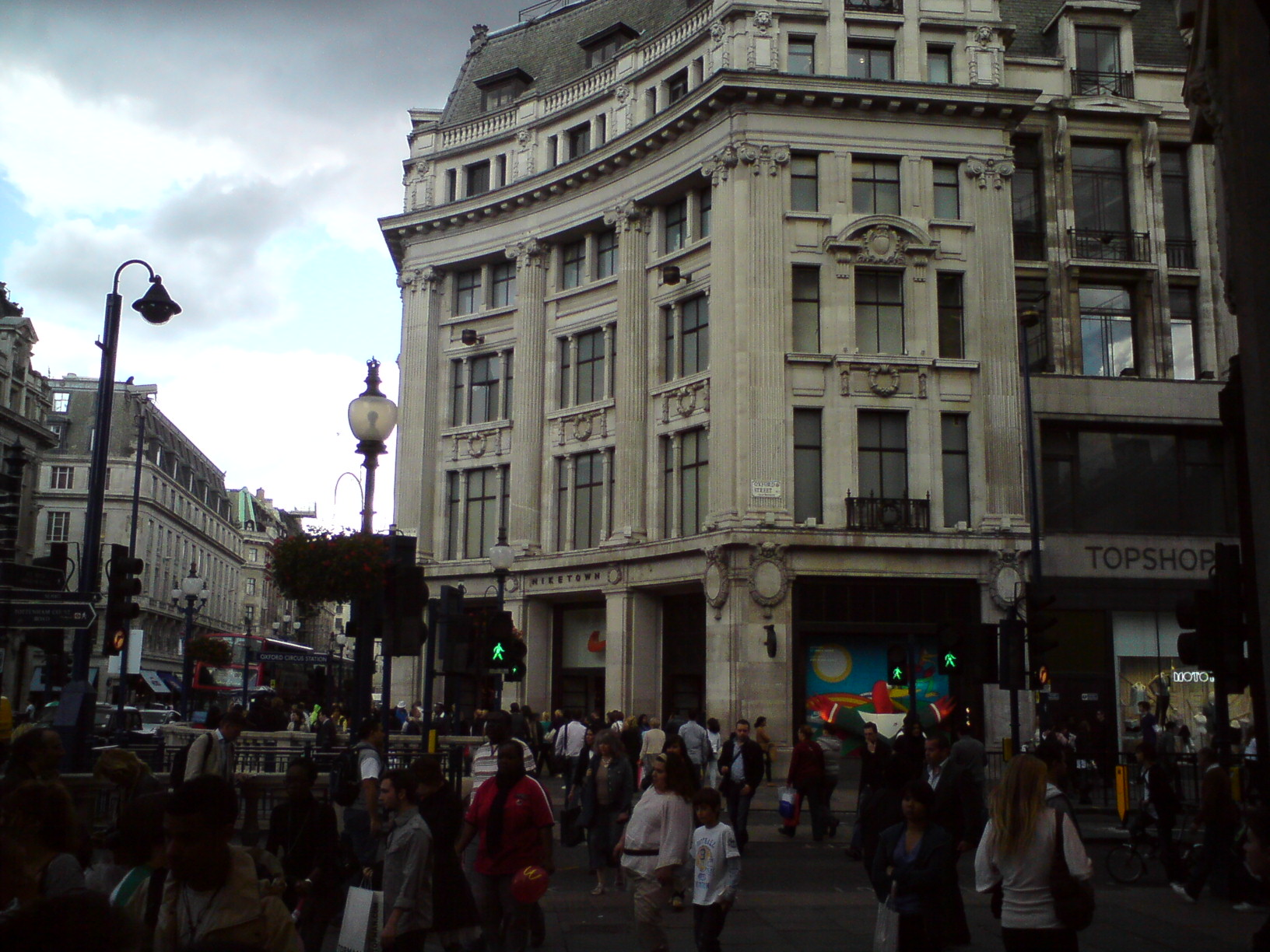 I created this myself, Niketown London